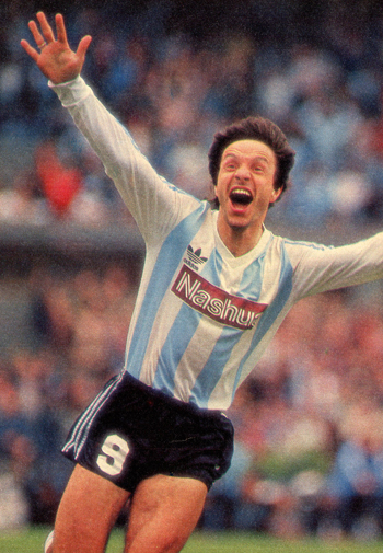 Argentine football striker, José Raúl "Toti" Iglesias while playing for Racing Club.